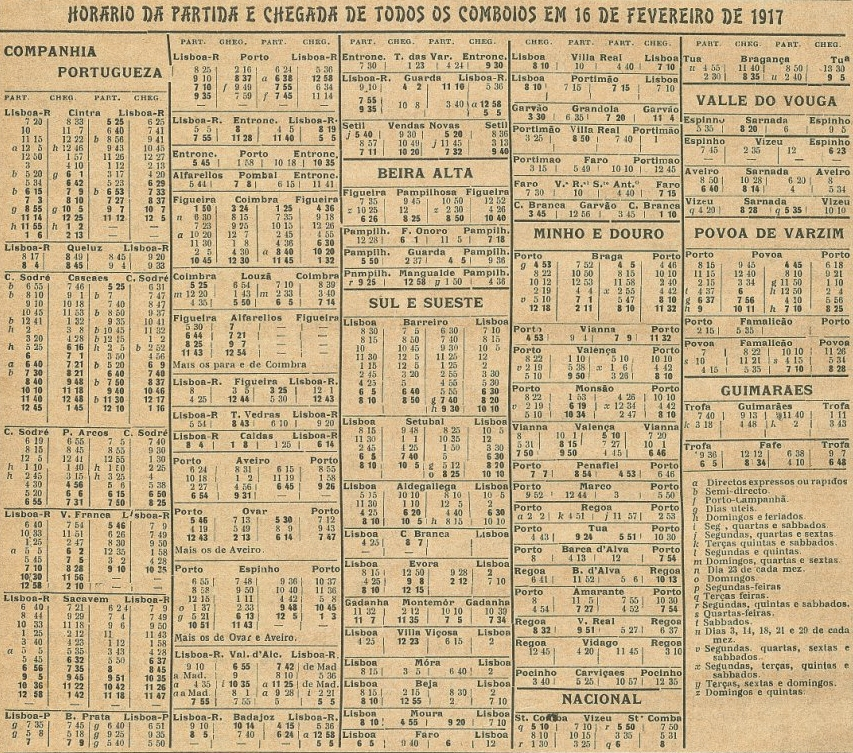 Timetable of all the passenger trains in Portugal, in 16th February 1917. This image was published on the Gazeta dos Caminhos de Ferro magazine No. 700, of the 16th February 1917, and scanned by the Hemeroteca Municipal de Lisboa.